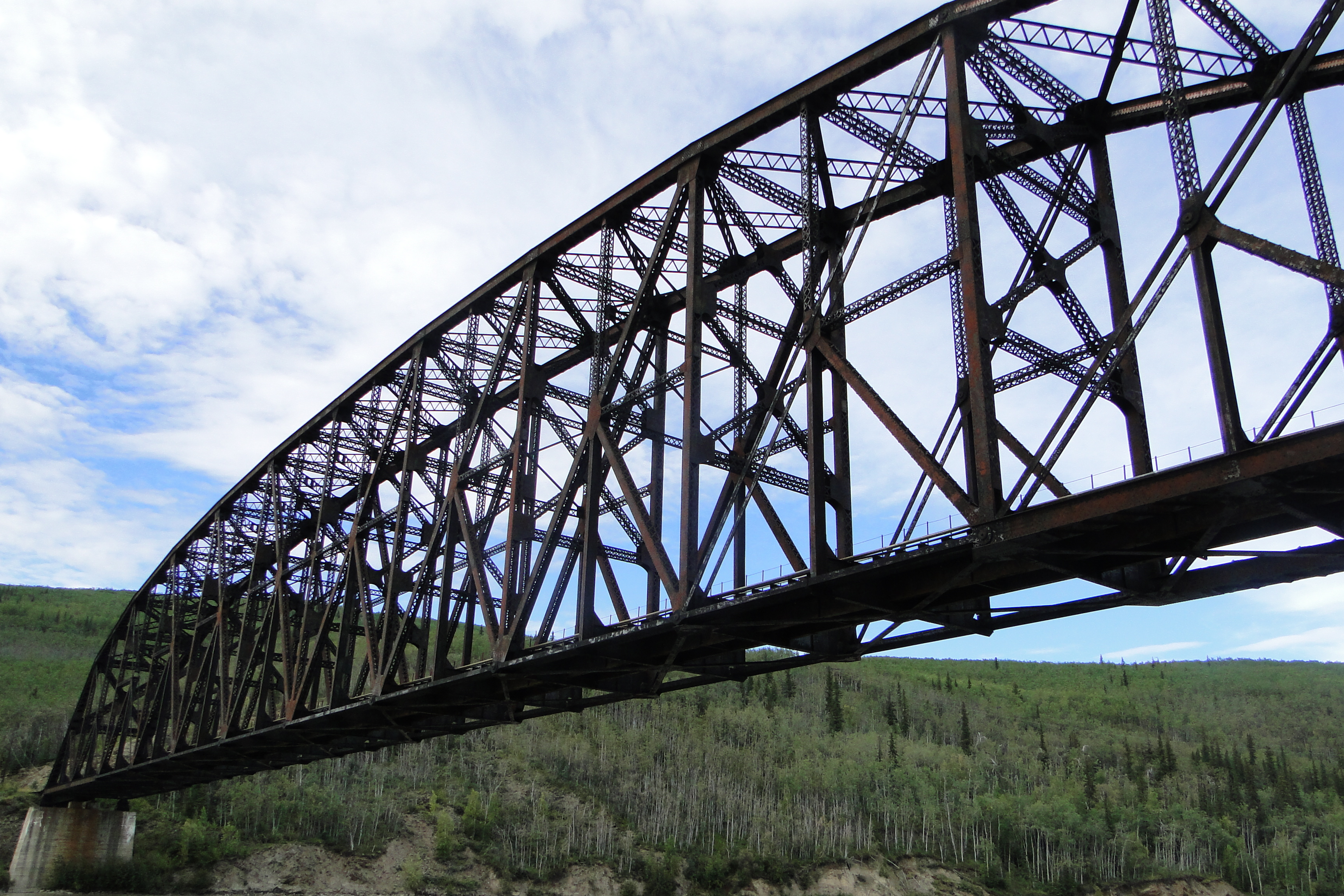 Mears Memorial Bridge, the railroad bridge in Nenana, AK over the Tanana River.